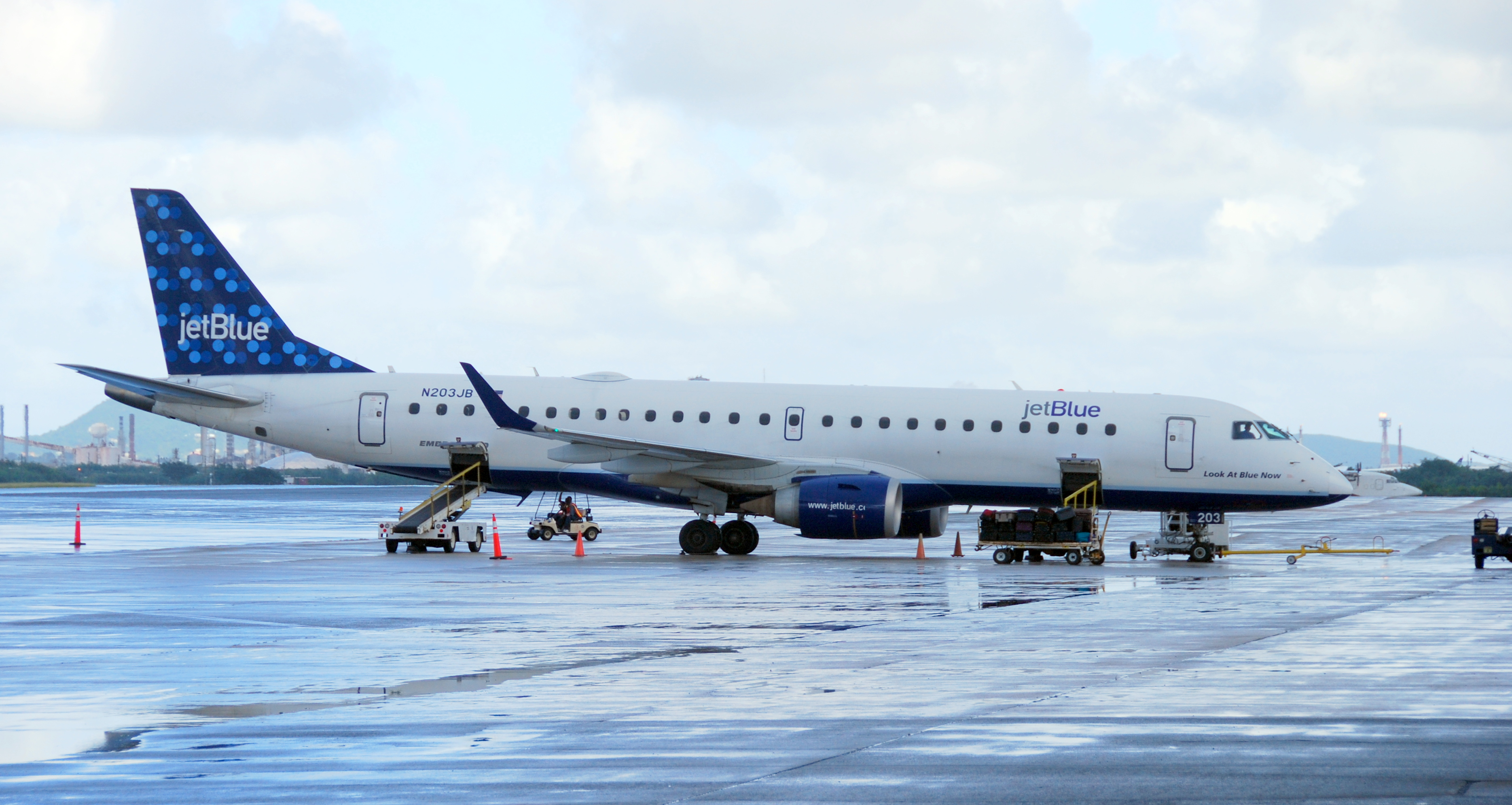 JetBlue Airways, Embraer ERJ-190-100IGW 190AR (N203JB) in Henry E. Rohlsen Airport, St. Croix, USVI.